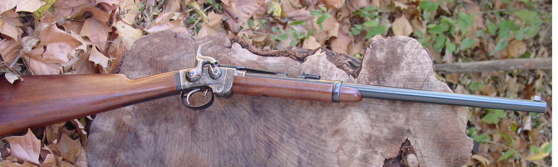 The Smith carbine used reloadable cartridges of gutta percha or brass.